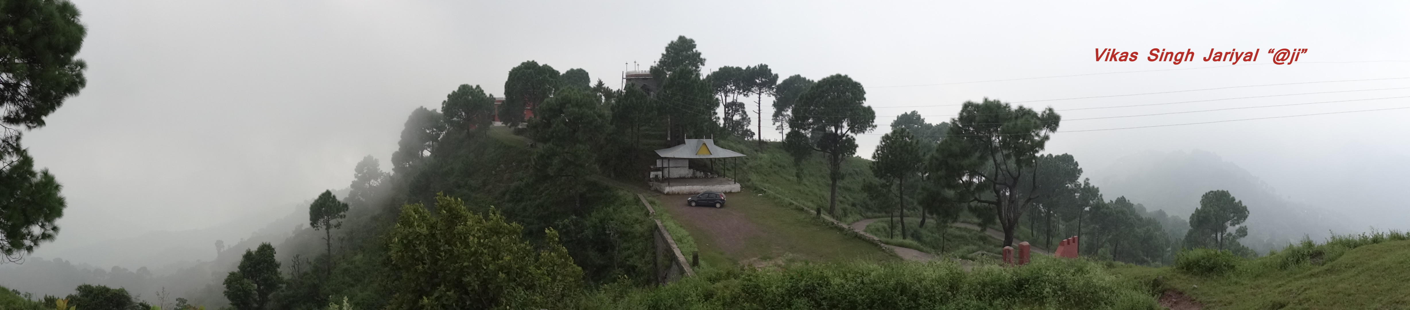 Panoramic view from fort